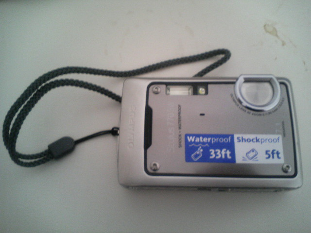 Olympus Stylus 770 SW (μ770SW)